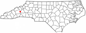 Category:North Carolina Dot Maps